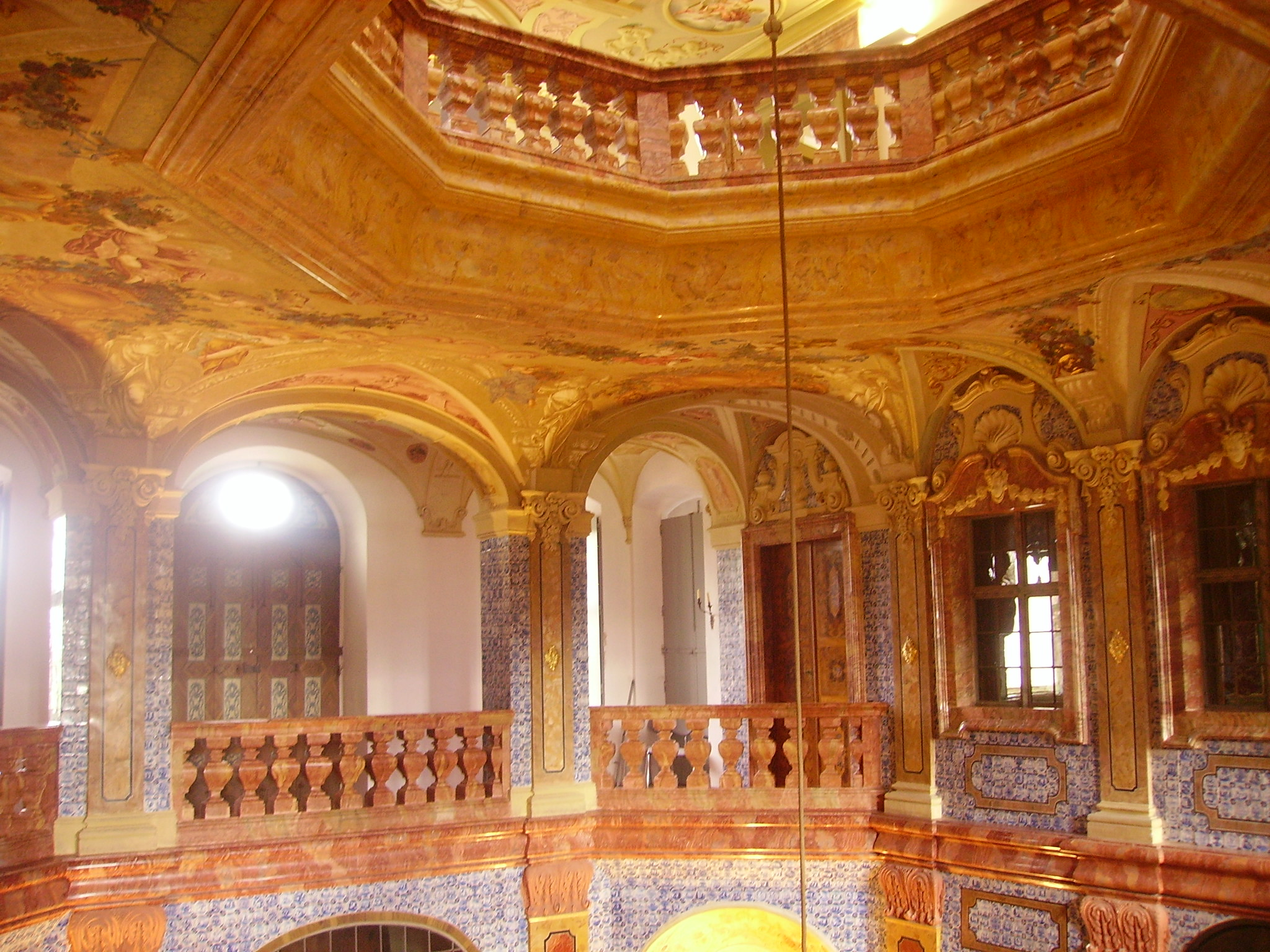 Sala terrena at Favorite Palace, Rastatt